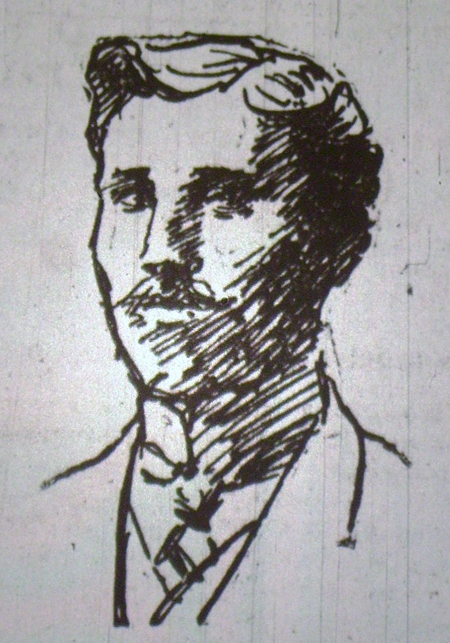 Picture of Antti Kiviranta, Finnish politician